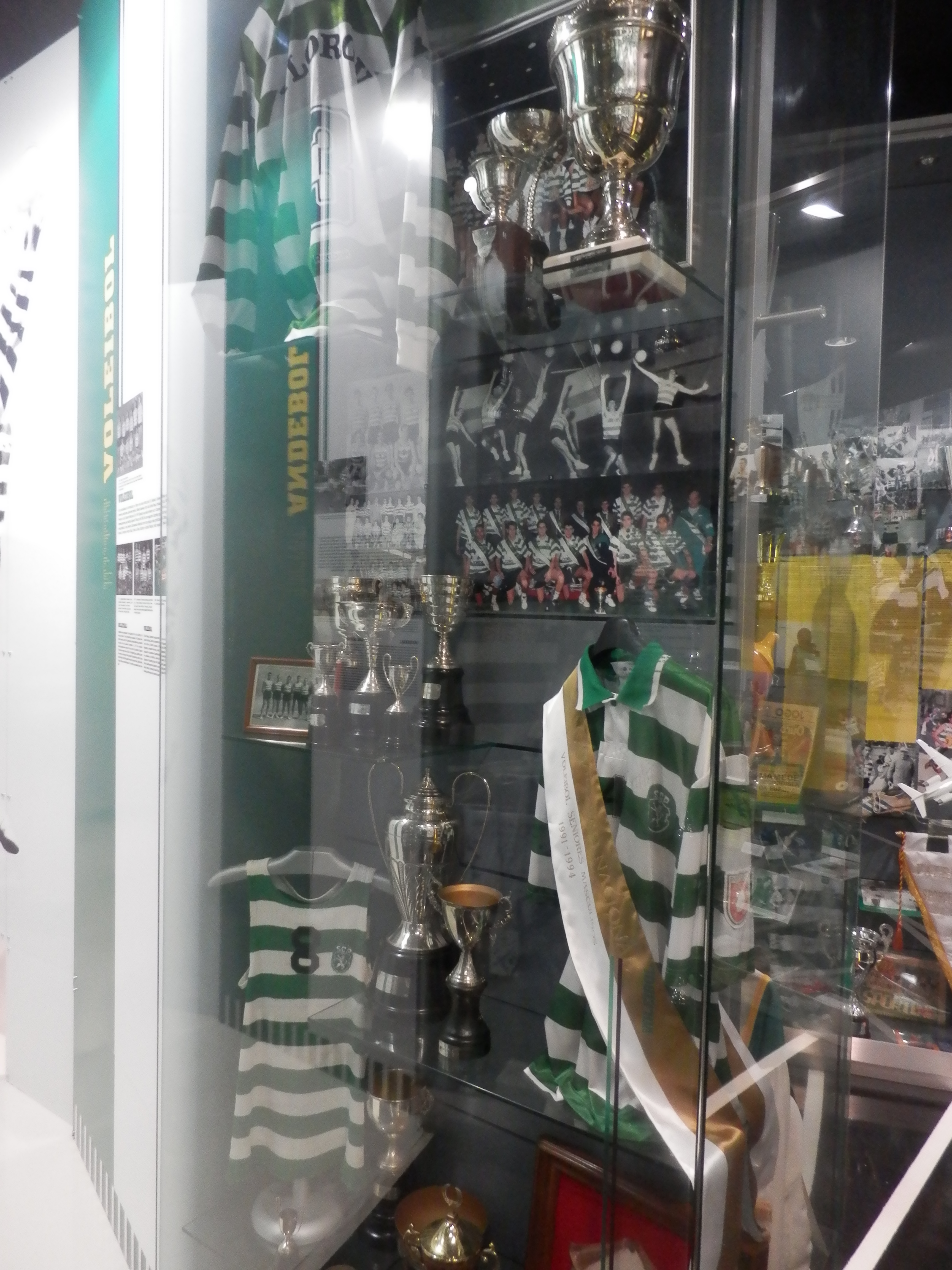 Trophies related to volleyball at Sporting.